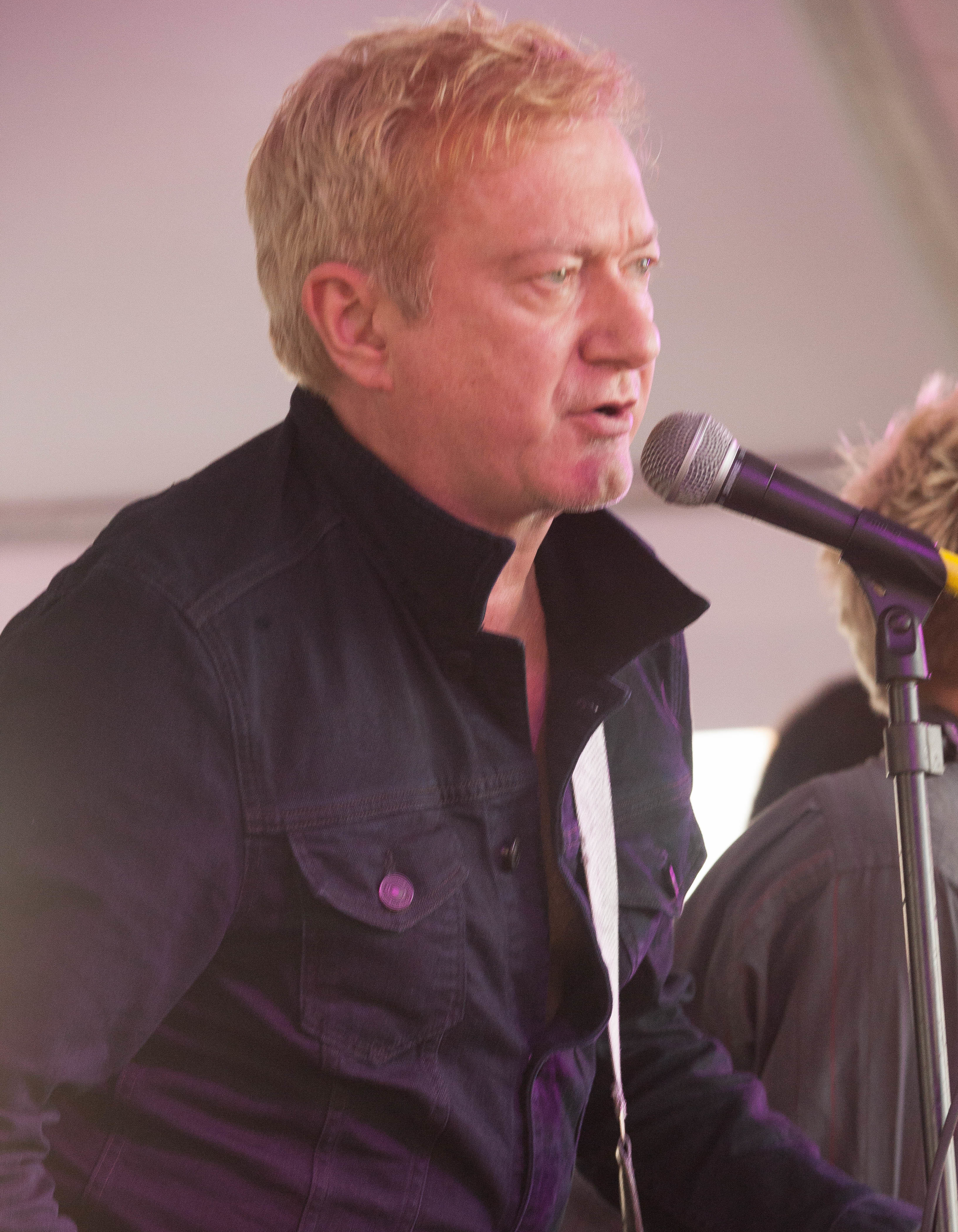 Gang of Four SXSW -5355.jpg